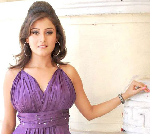 Archana gupta